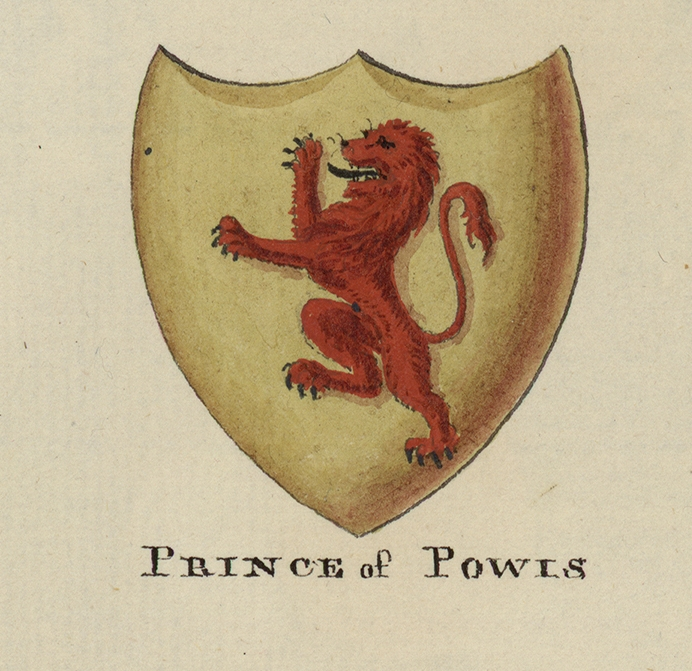 An image from a set of 8 extra-illustrated volumes of A tour in Wales by Thomas Pennant (1726-1798) that chronicle the three journeys he made through Wales between 1773 and 1776. These volumes are unique because they were compiled for Pennant's own library at Downing. This edition was produced in 1781. The volumes include a number of original drawings by Moses Griffiths, Ingleby and other well known artists of the period. Thomas Pennant (1726-1798)